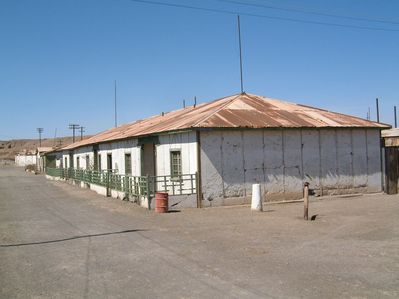 Worker's houses in Humberstone Saltpeter Works Chile